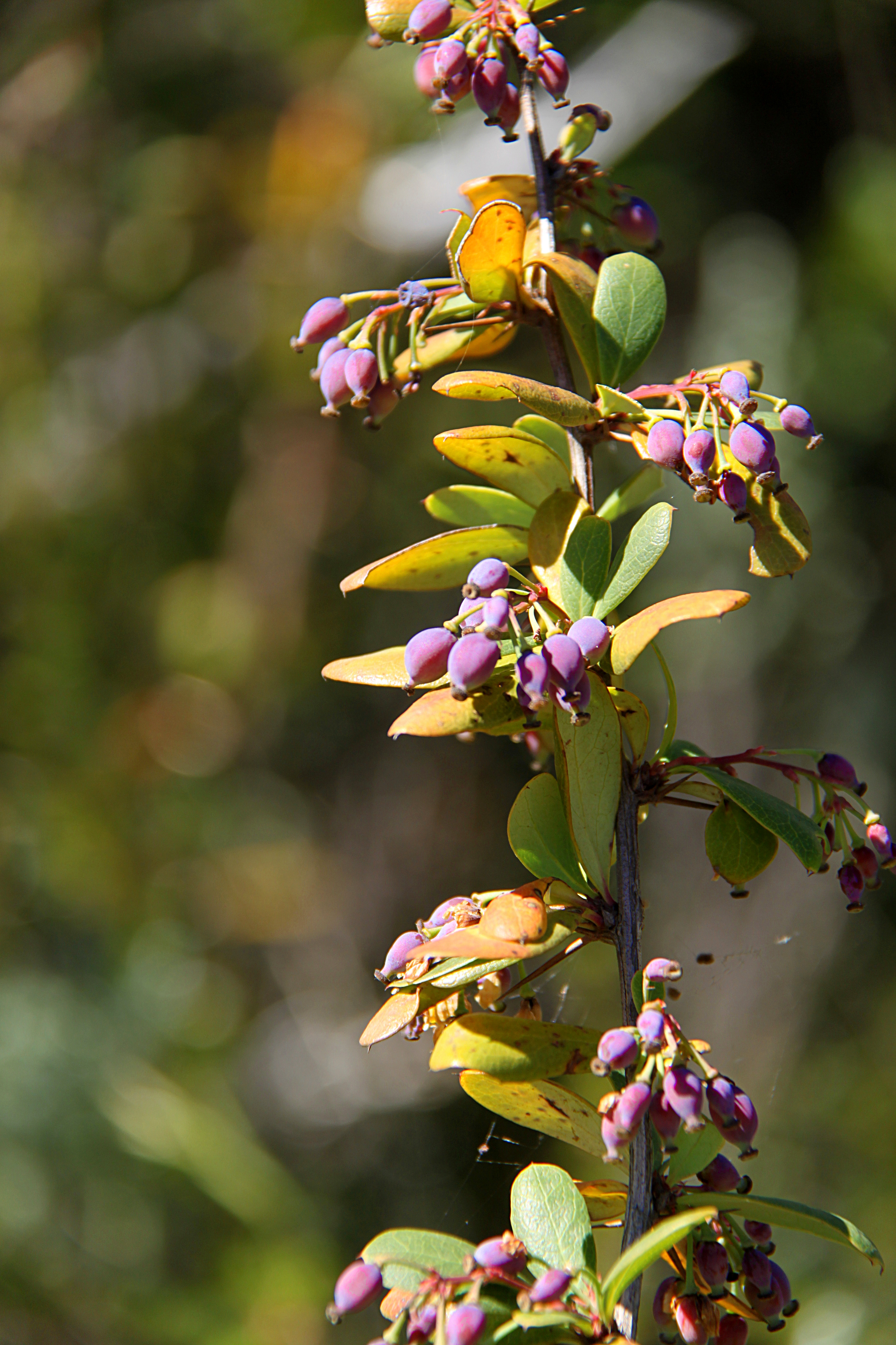 Berberis holstii carrying unripe berries, about 1 m high, leaves 2-3 cm long, photographed along the Chogoria route, Mount Kenya, at approximately 3050 m altitude